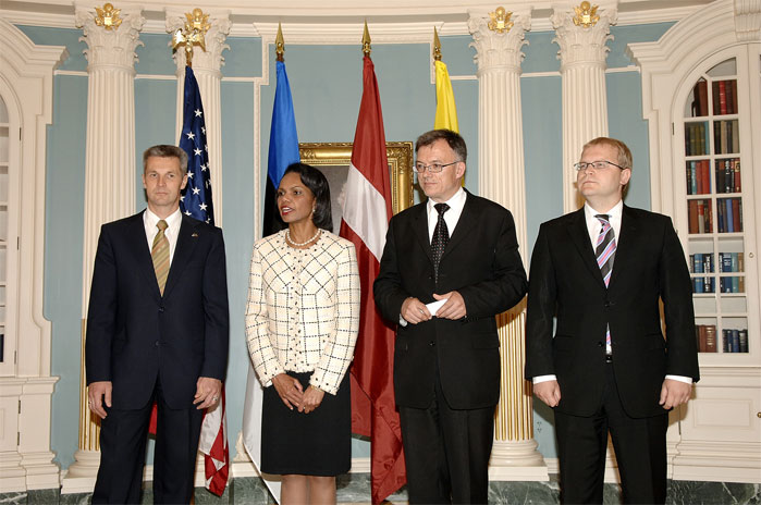 Secretary Condoleezza Rice met with Latvian Minister of Foreign Affairs Artis Pabriks, Lithuanian Minister of Foreign Affairs Petras Vaitiekunas and Estonian Minister of Foreign Affairs Urmas Paet (from left to right).